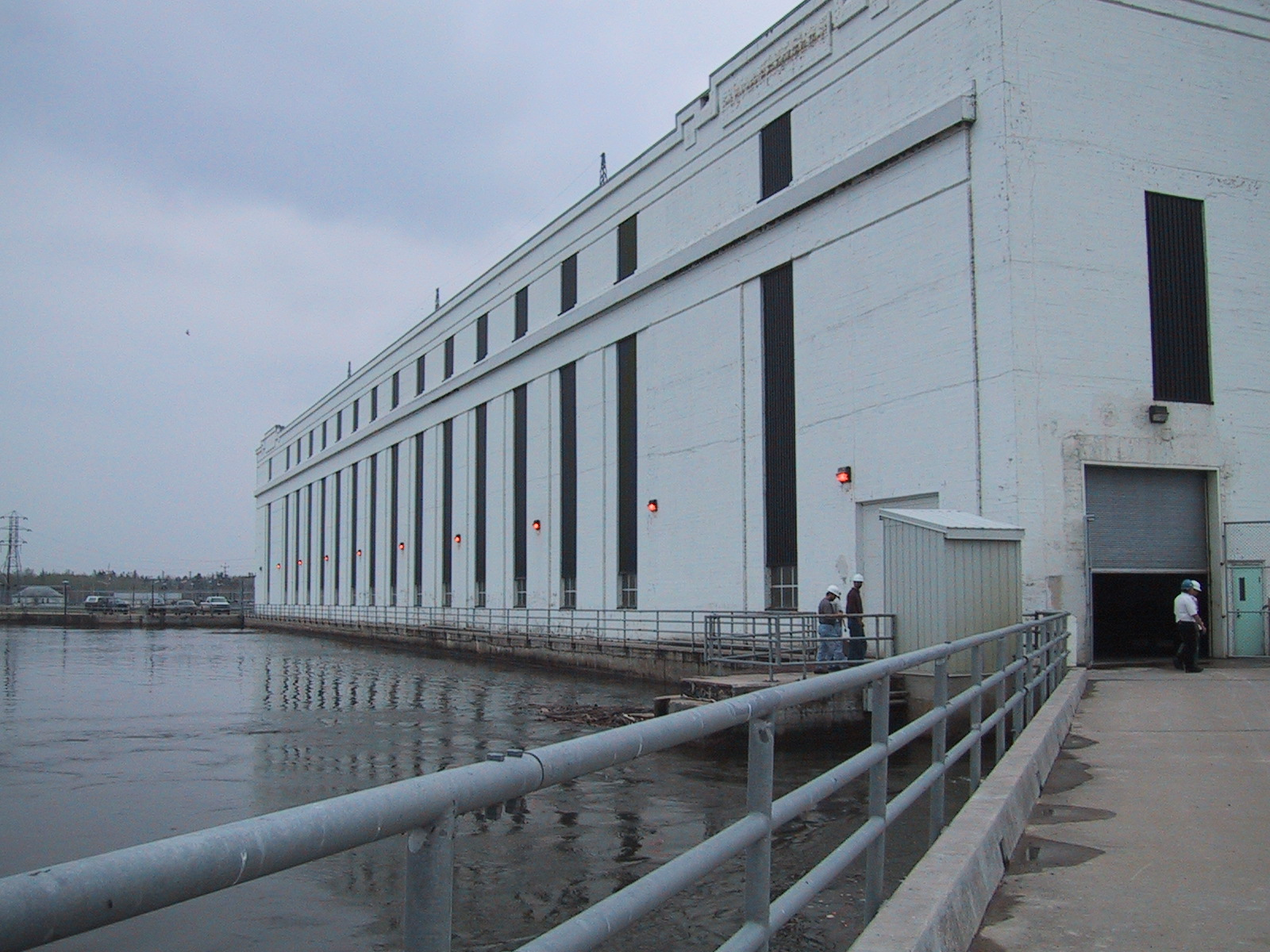 North end, upstream side of the Great Falls Generating Station powerhouse, owned and operated by Manitoba Hydro. Taken June 28,2001 near 50.463351, -96.006474. The powerhouse was built in 1923 and as of 2012 still operates